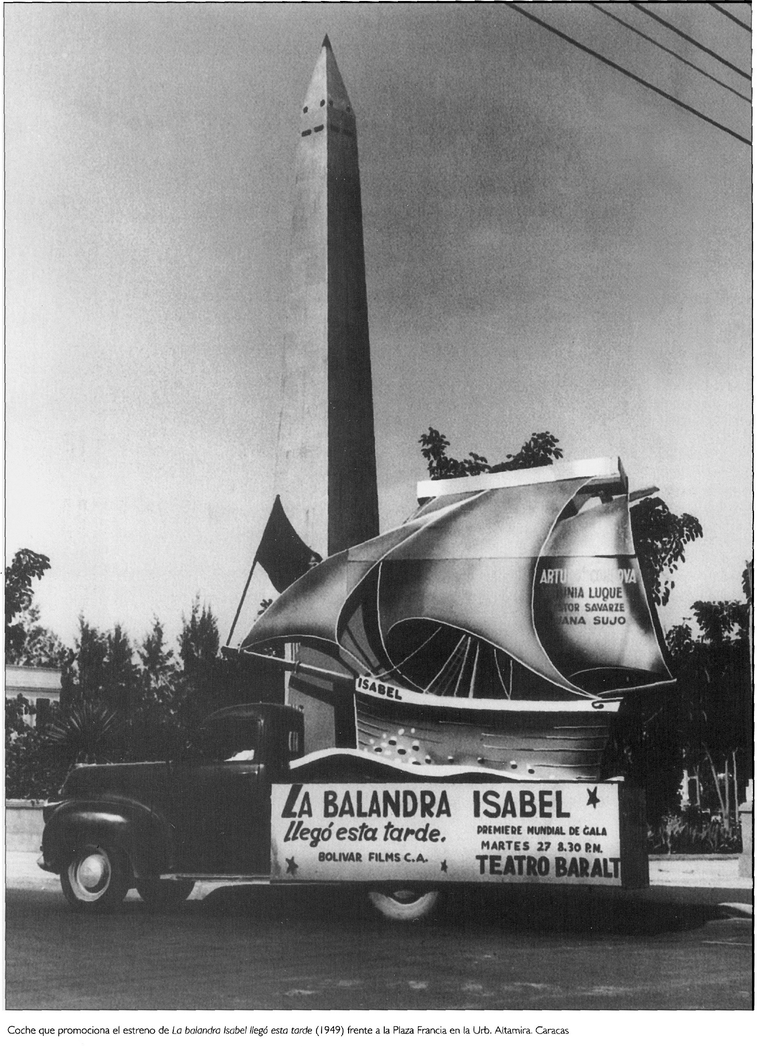 A promotional yacht-car at Plaza Francia, Altamira, Caracas, advertising the release of film La balandra Isabel llegó esta tarde in 1949